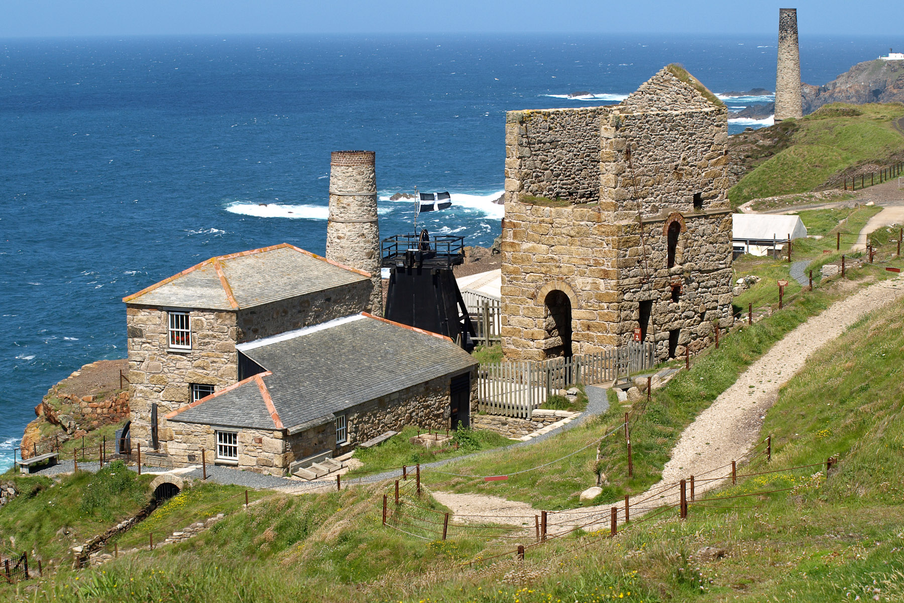 This National Trust property is well worth a visit.